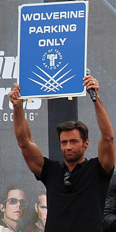 Hugh Jackman at the X-Men Origins: Wolverine premiere 2009